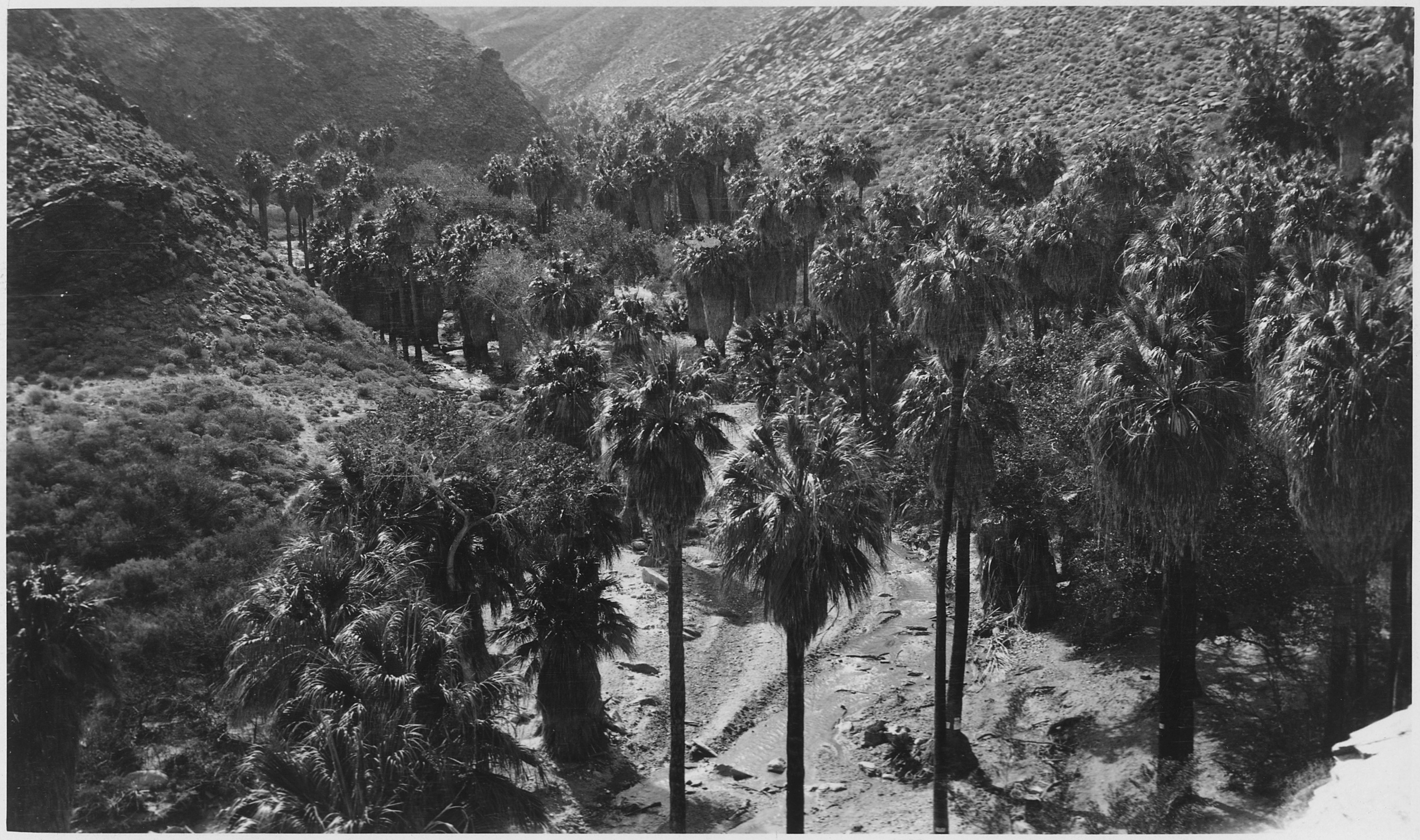 Scope and content: Reports contain information on irrigation issues for a variety of Indian Agencies under the control of the Portland Area Office including agencies in Idaho, Oregon, Washington, California, Utah, and Arizona.